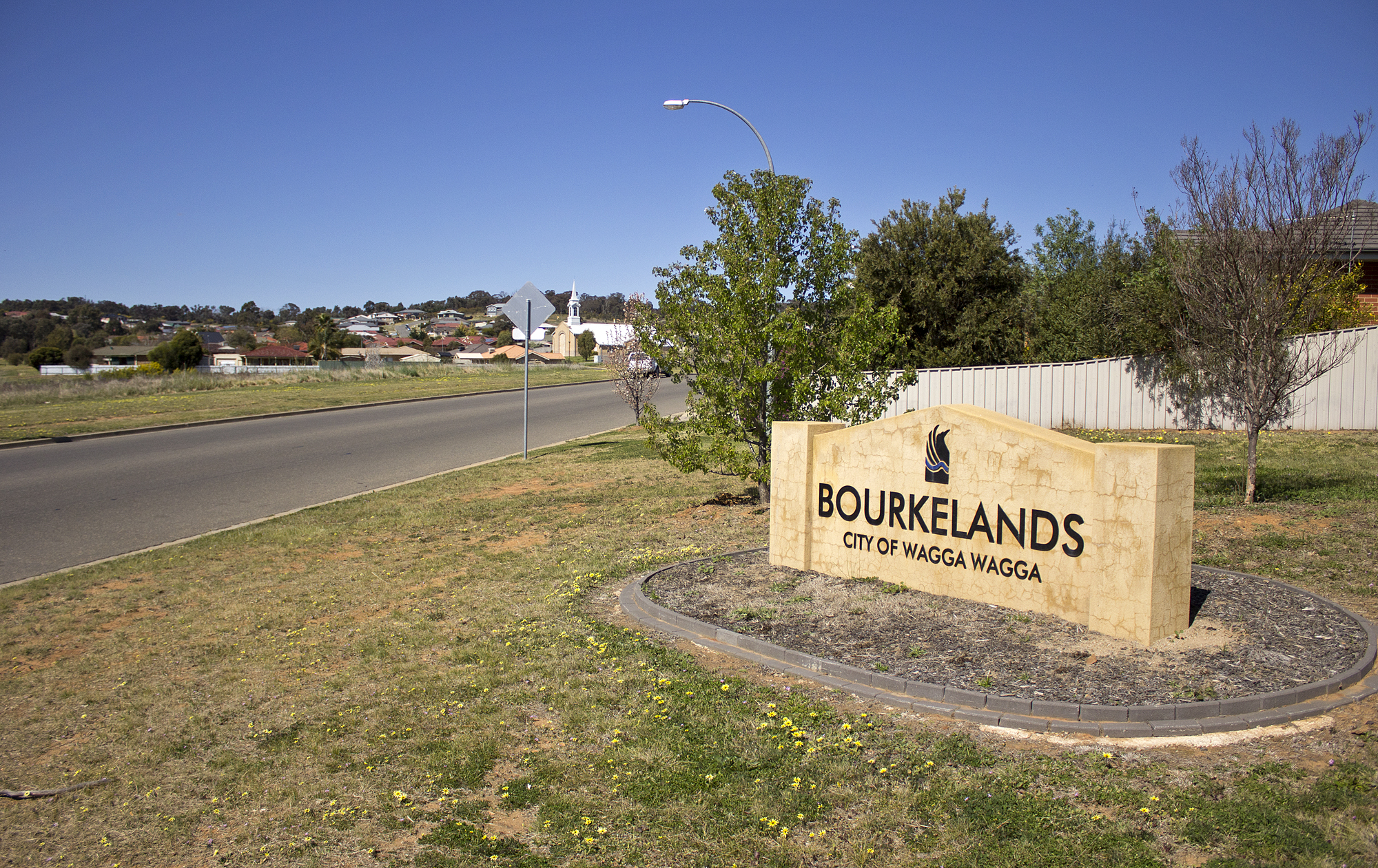 Looking east along Bourkelands Drive in Bourkelands, New South Wales.